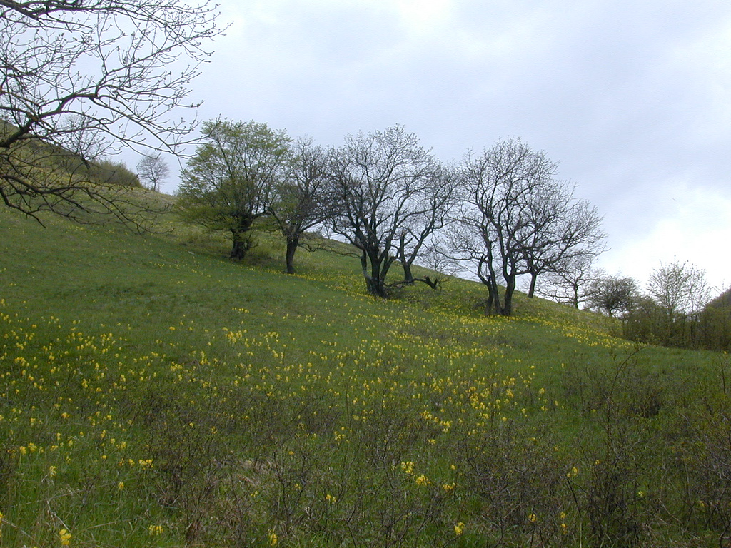 Mount Didgori